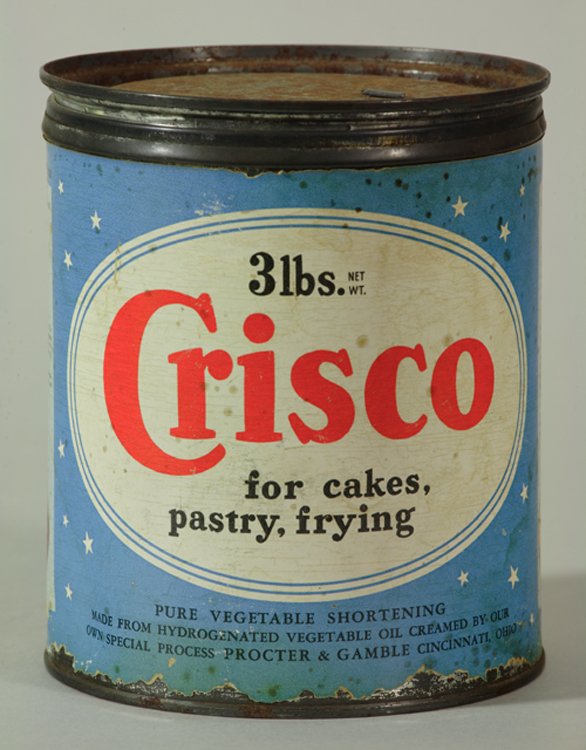 Vintage Crisco can: Cylindrical metal can with blue paper label on the outside; paper label identifies the product, weight, and manufacturer, as follows: "3lbs. NET WT / Crisco / for cakes, / pastry, frying / PURE VEGETABLE SHORTENING / MADE FROM HYDROGENATED VEGETABLE OIL CREAMED BY OUR / OWN SPECIAL PROCESS PROCTER & GAMBLE CINCINNATI, OHIO" Paper label shows signs of wear, some loss. Can is rusted but not corroding.